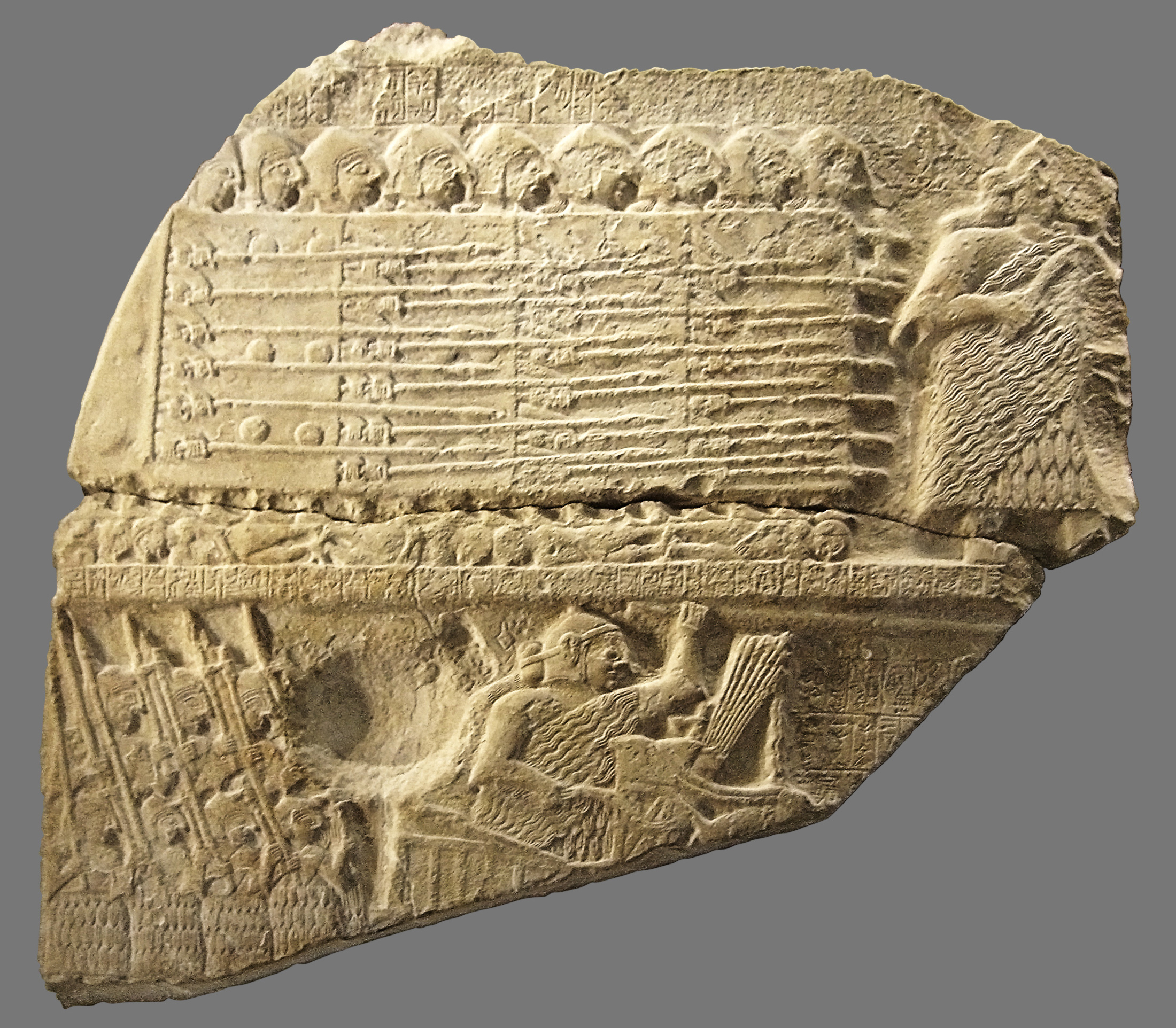 One fragment of the victory stele of the king Eannatum of Lagash over Umma, Sumerian archaic dynasties. Historical side.